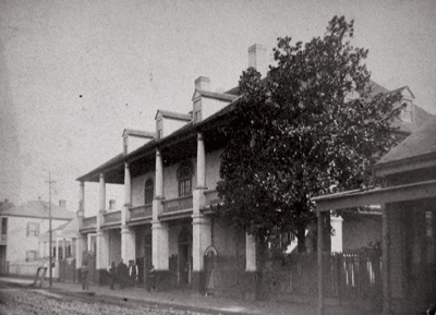 Morgan Street, Algiers Point, New Orleans, 1891. Old Duverje Plantation House, at the time serving as a courthouse. Building was destroyed in the great fire of old Algiers in 1895.